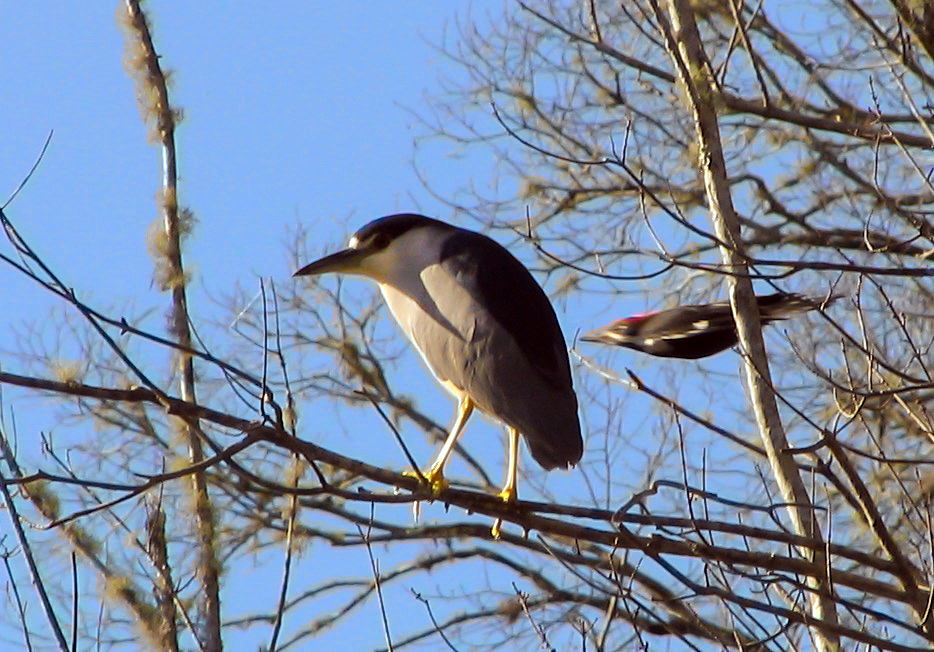 Black-crowned Night Heron Nycticorax nycticorax, with Pileated Woodpecker Dryocopus pileatus flying past behind, Hontoon Dead River, Florida